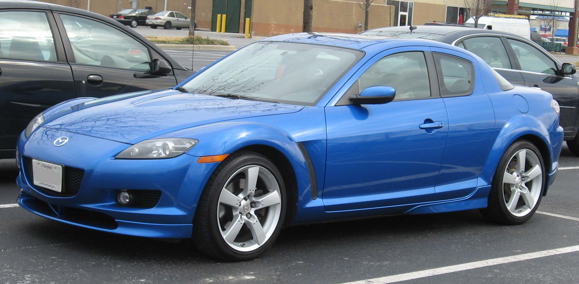 2004-2007 Mazda RX-8 photographed in USA.